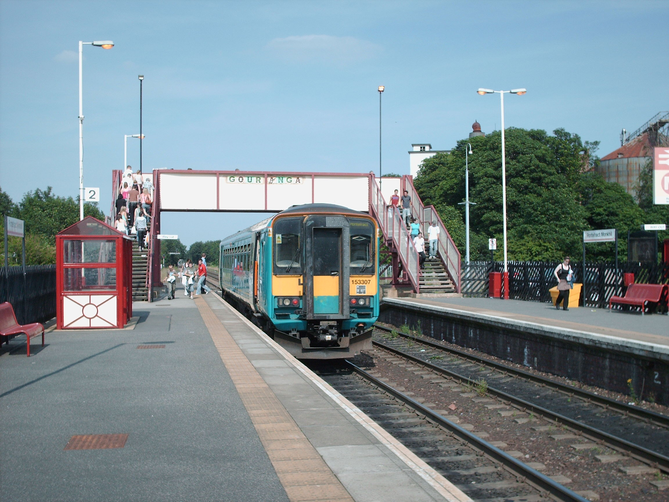 Pontefract_Monkhill railway station, West Yorkshire. Platform 2. Northern Trains DMU 153307 from Leeds is discharging passengers.